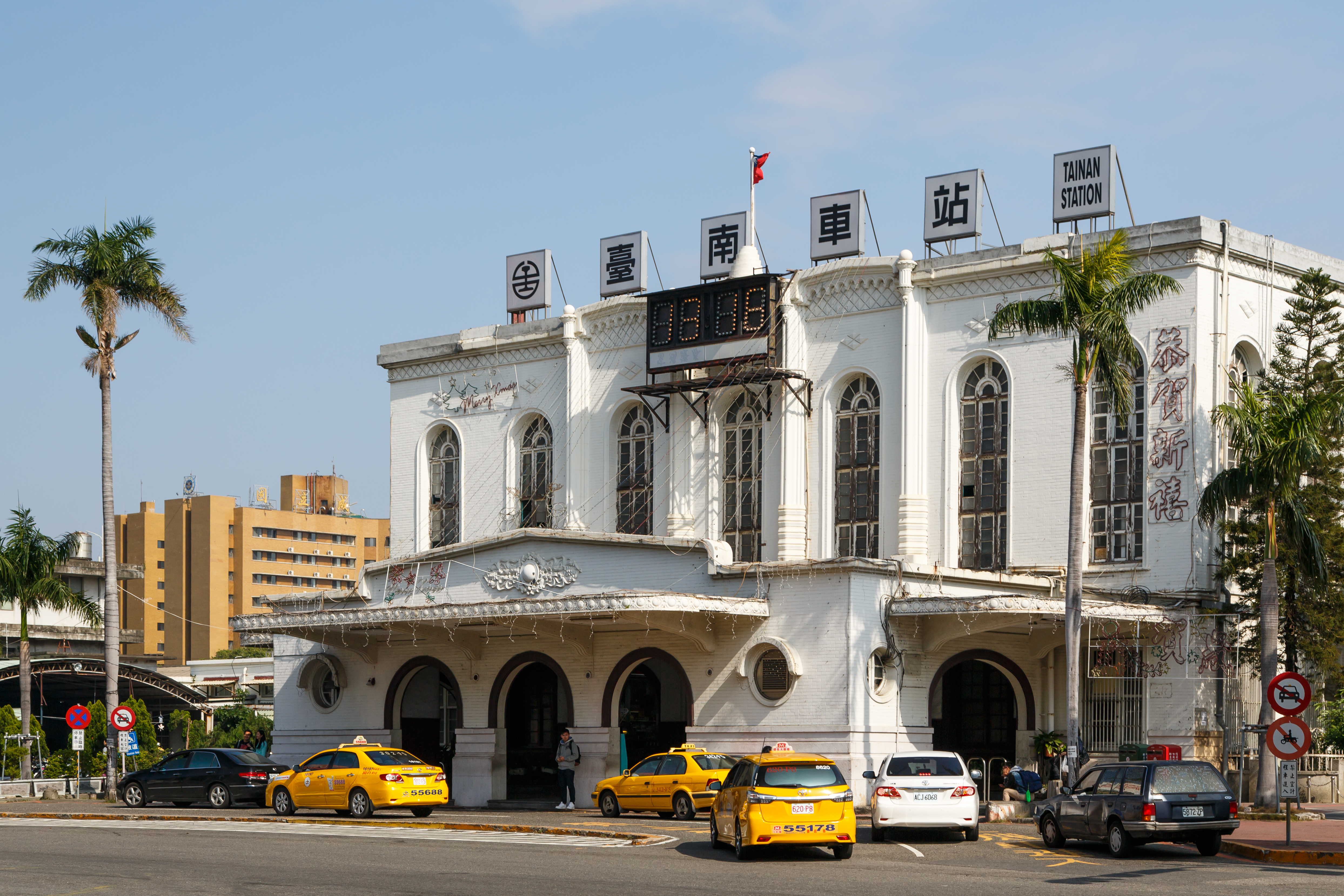 Tainan, Taiwan: TRA Tainan Station